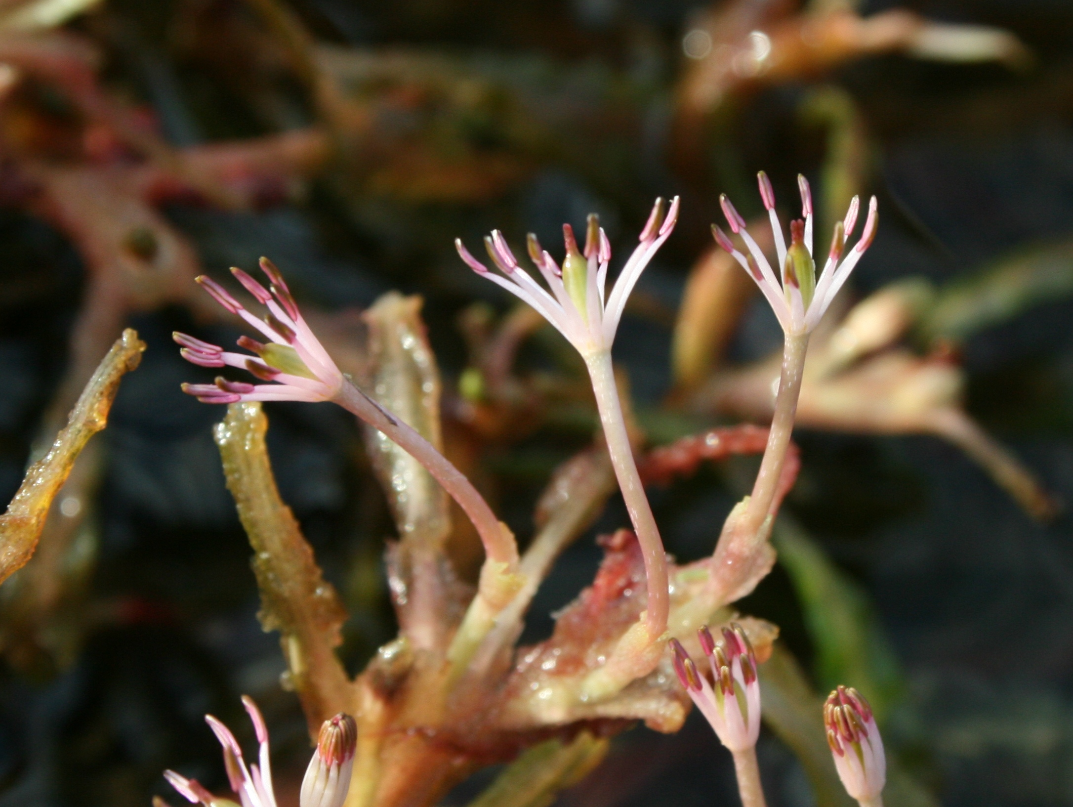 Flowers of Apinagia longifolia, Rio Nicharé near mouth, Rio Caura region, Venezuela